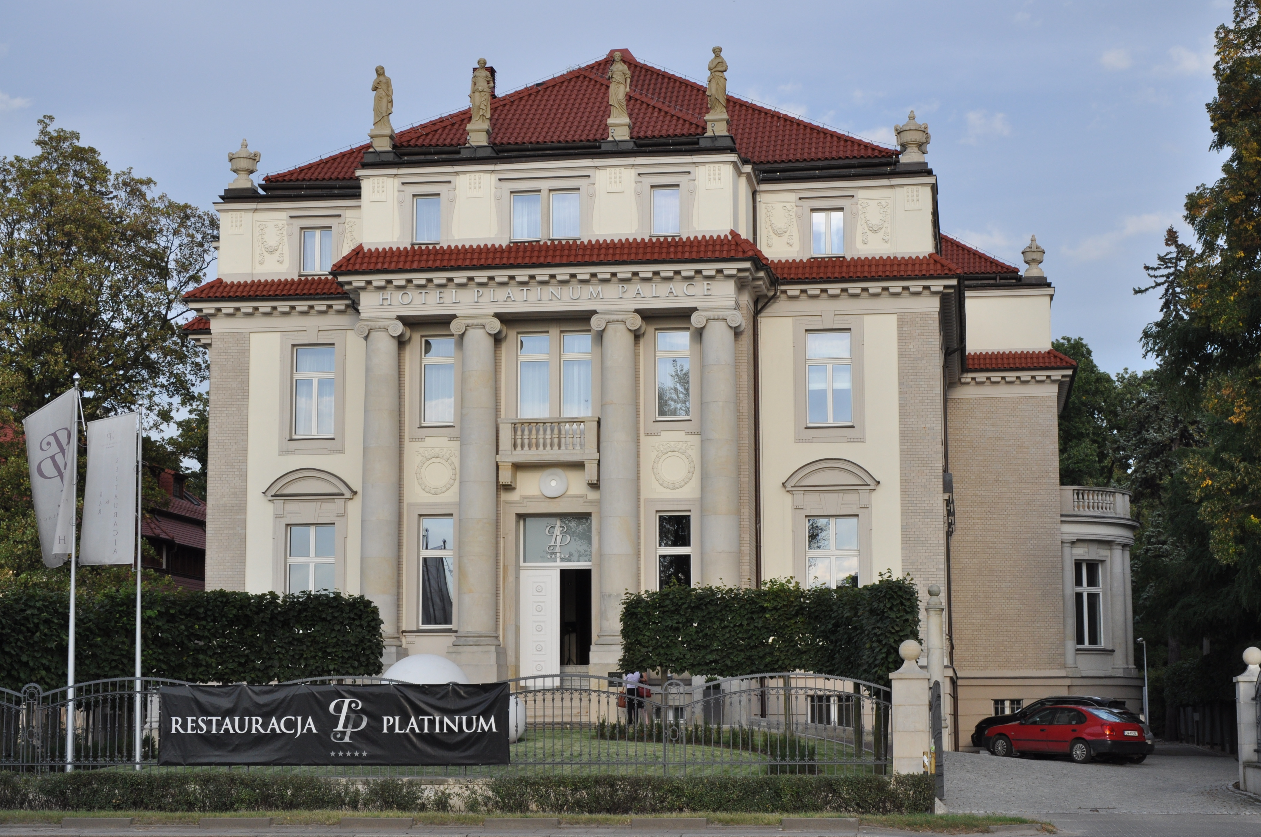 The residence of the Schoeller family.